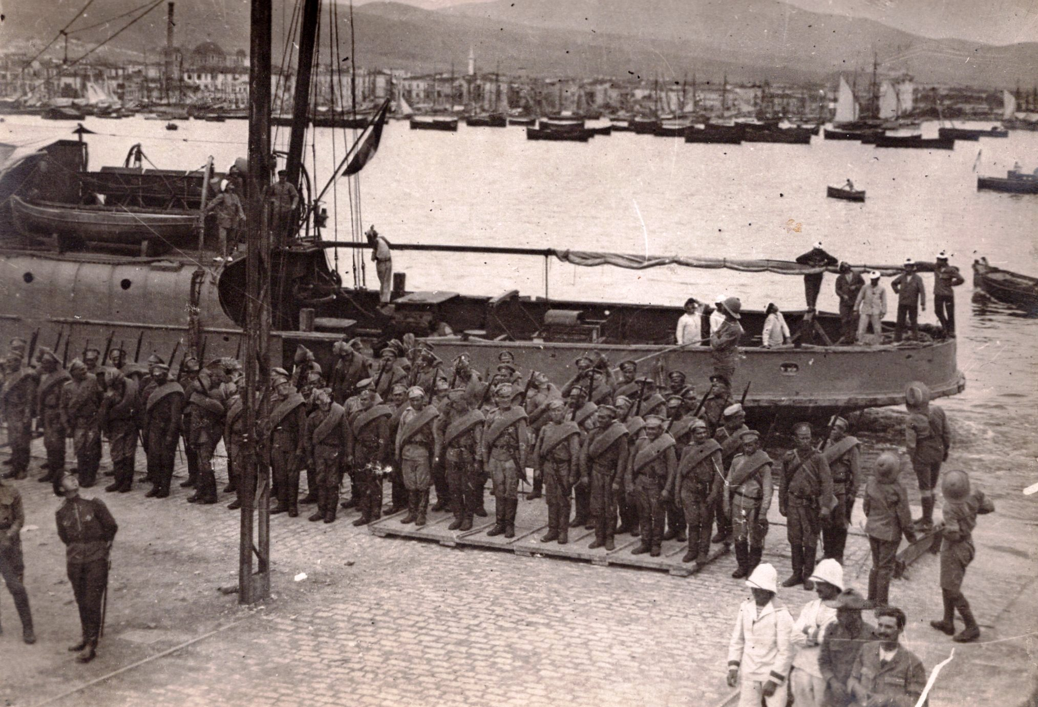 Entente troops in Thessaloniki, World War I This media file is produced by Wikipedian in Residence in Category:Wikipedian in Residence at DARM in 2016.